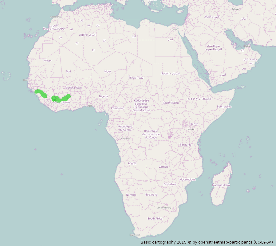 distribution area of emerald starling (Lamprotornis iris)